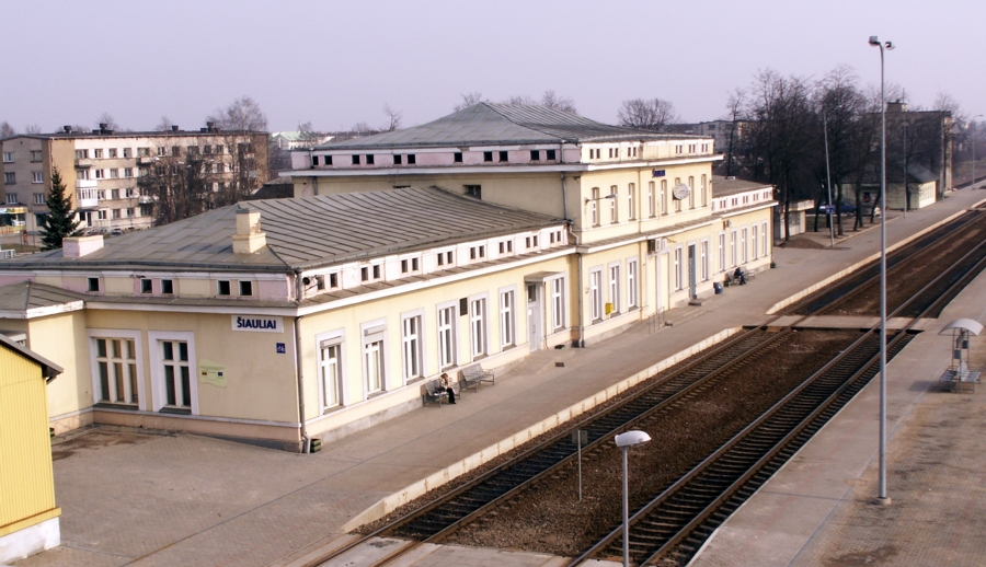 Šiauliai station, Lithuania